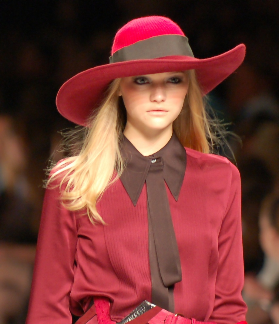 Gemma Ward at FashionWeekLive in San Francisco, March 15, 2007.